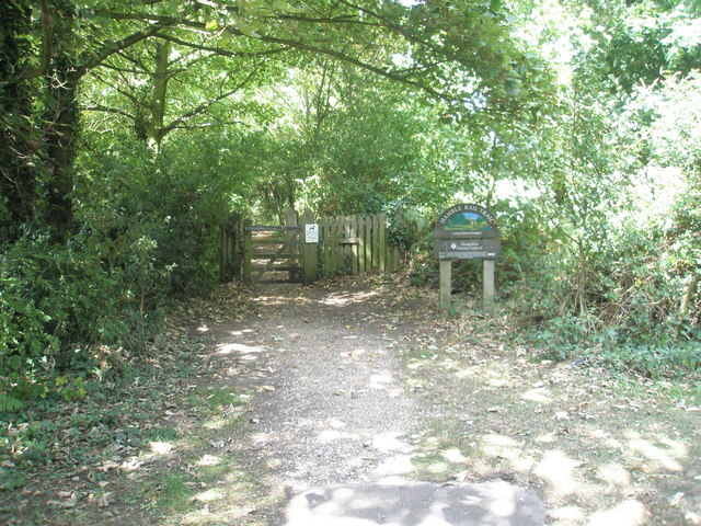 Start of the Hamble Rail Trail